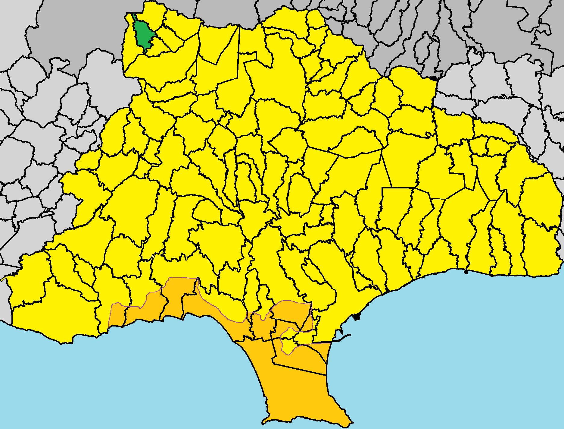 Treis Elies in Limassol District.